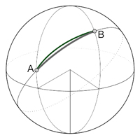 Illustration of the calculus of variations principle